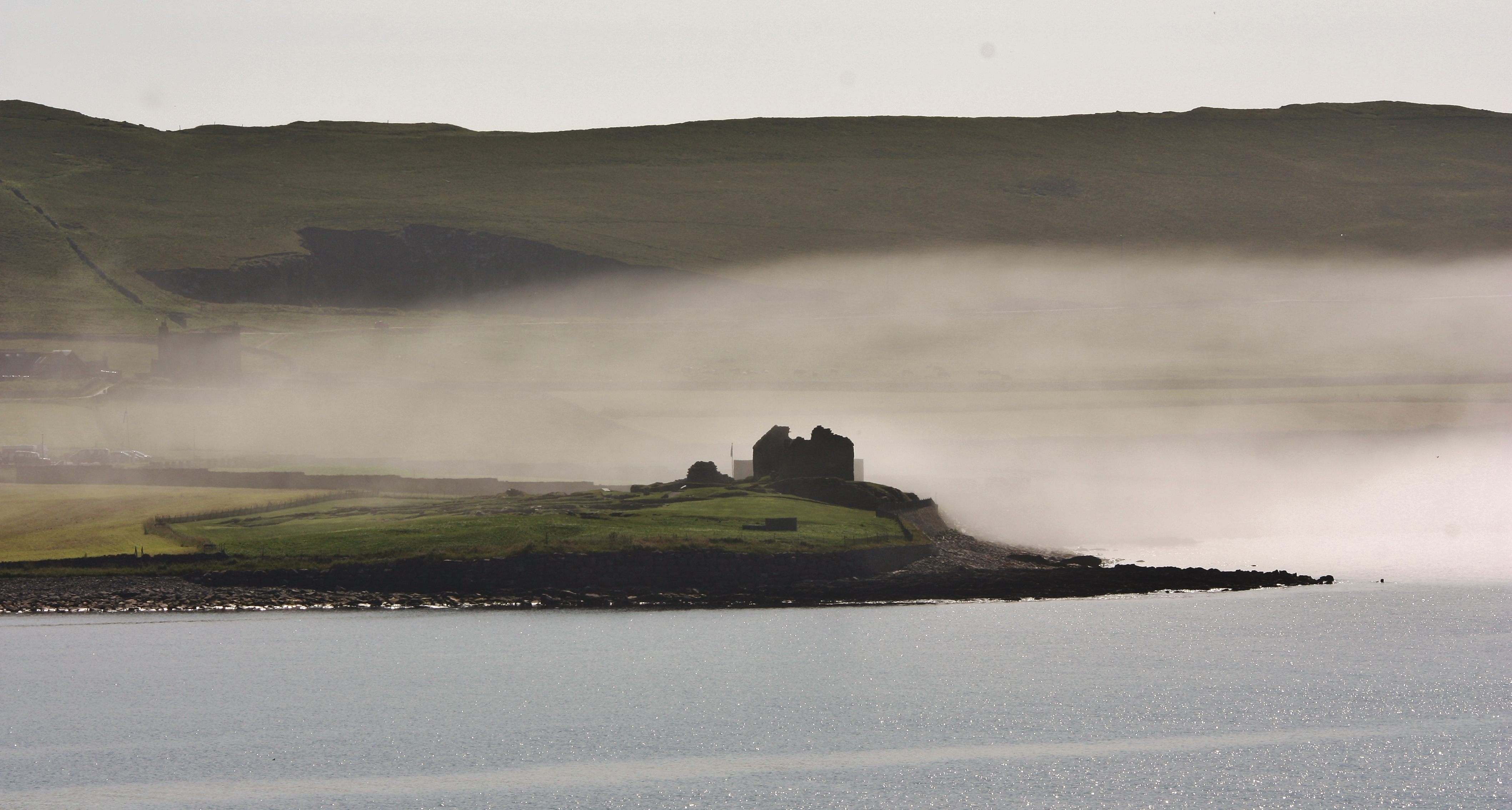 The morning mist disperses to reveal the Lairds auld hoose !